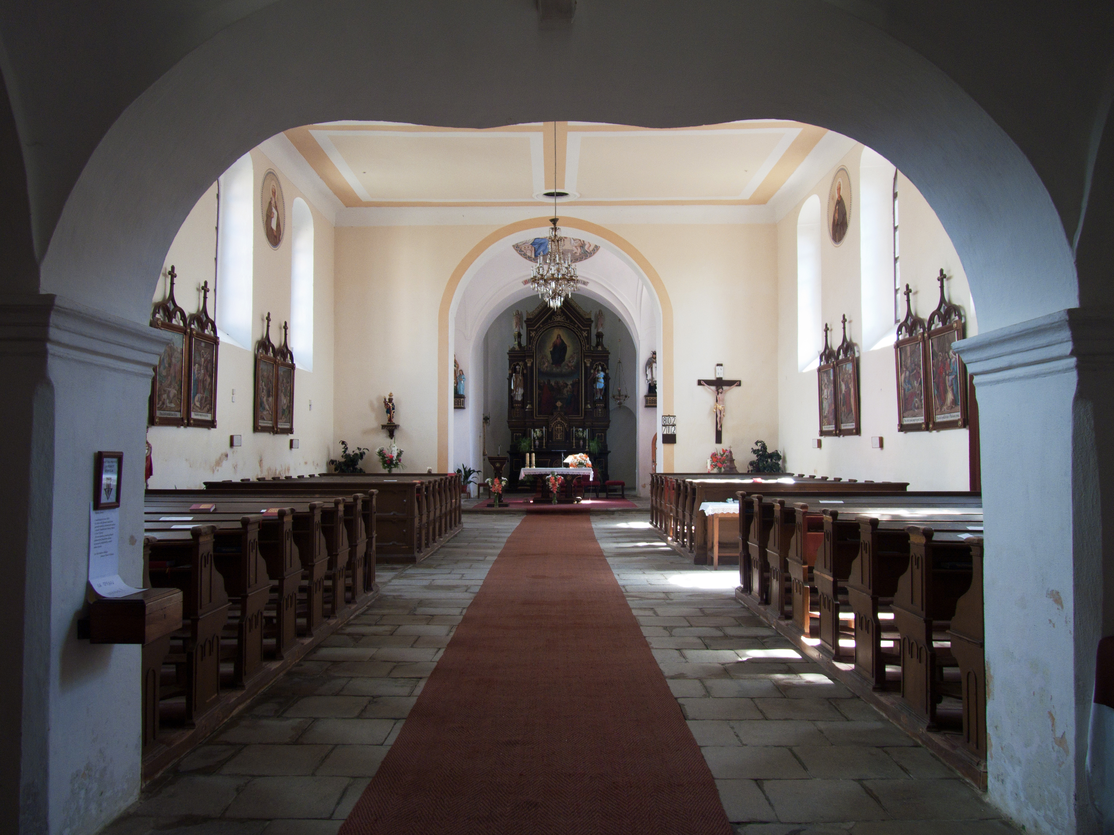 Interior of the Assumption of the Virgin Church in the town of Nová Včelnice, Jindřichův Hradec District, Czech Republic